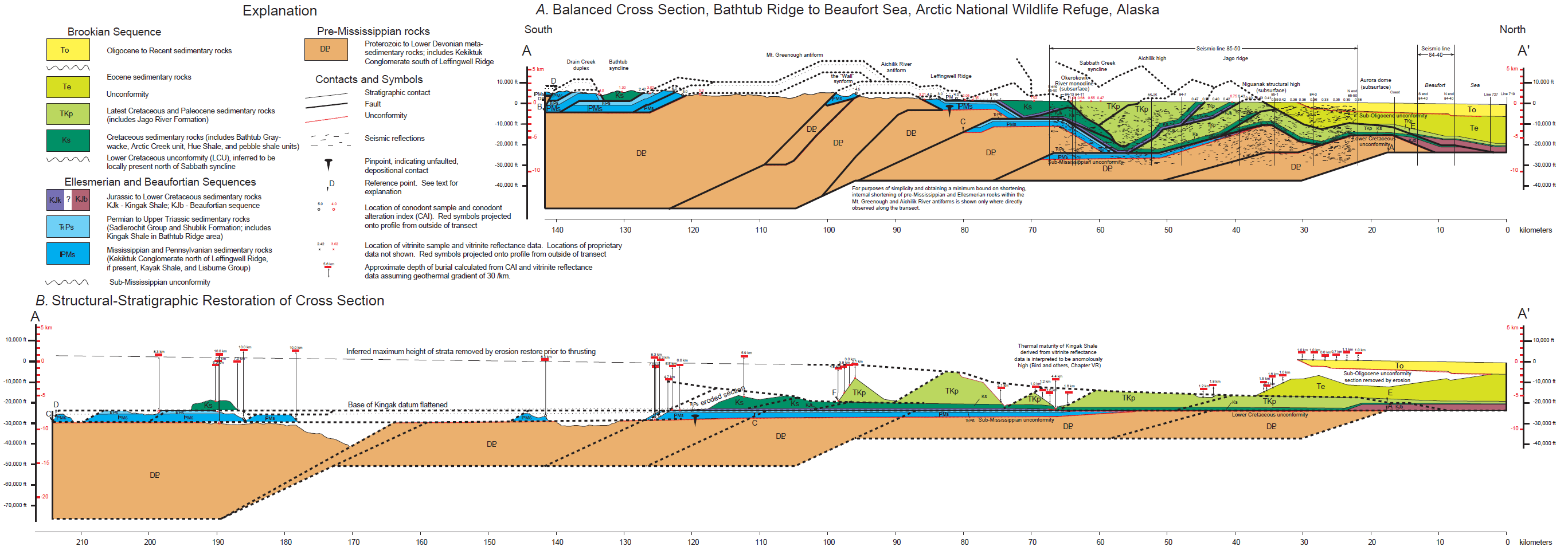 Balanced cross-section and structural stratigraphic restoration, bathtub syncline to Beaufort Sea, Alaska